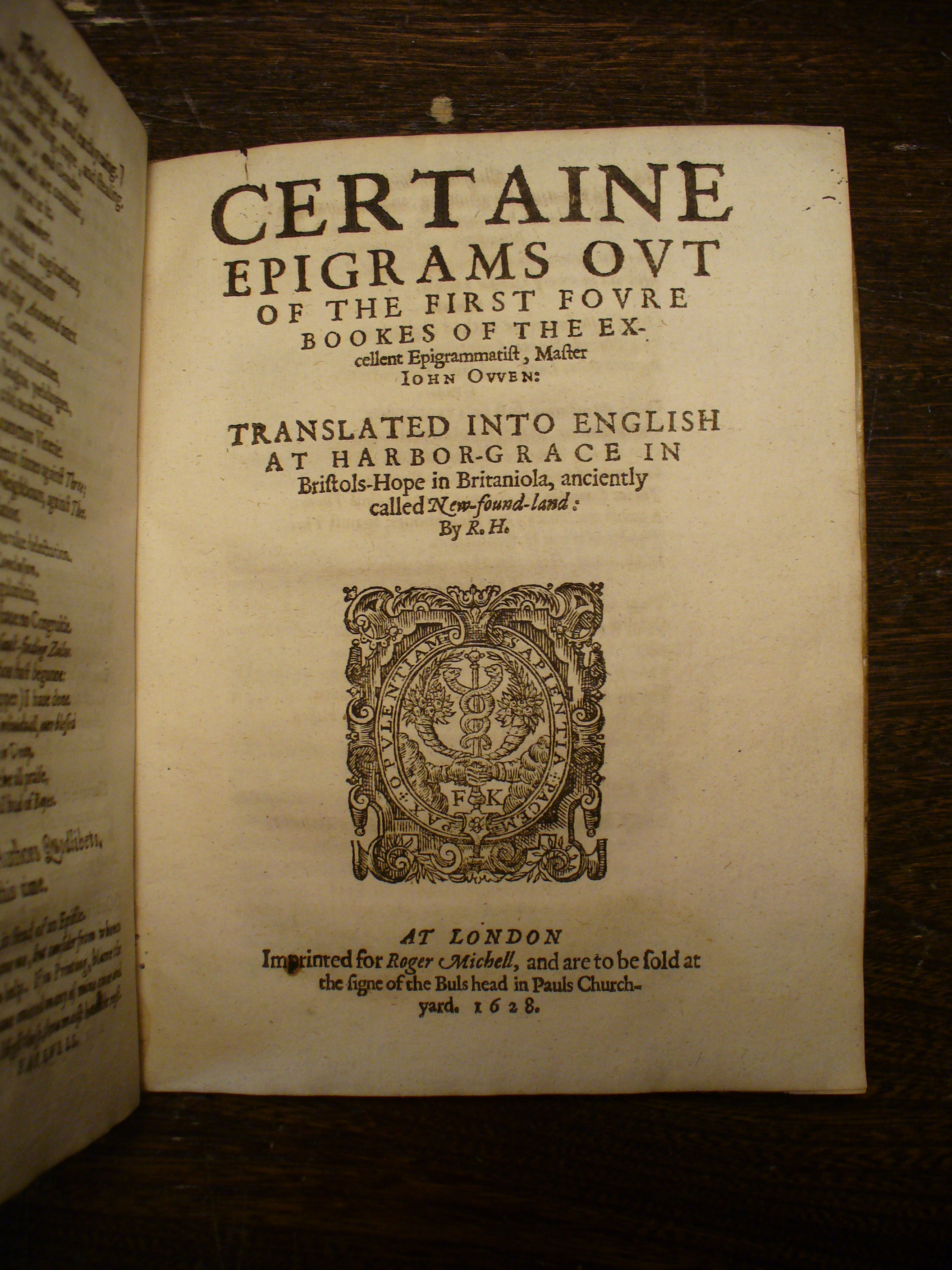 This is a photograph of the page introducing the "Epigrams" section of Quodlibets by Robert Hayman.